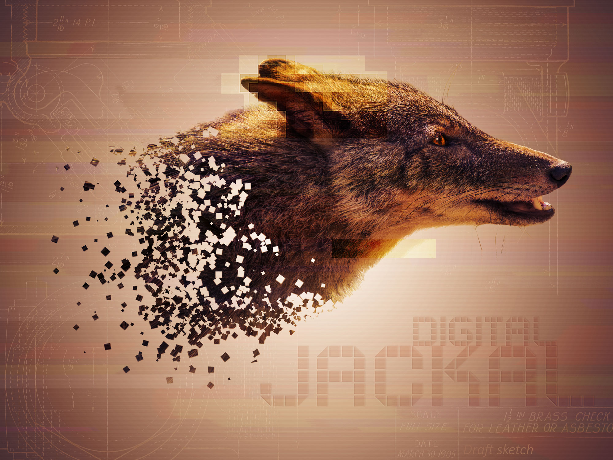 Digital glitch art design